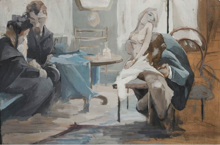 The Doctors